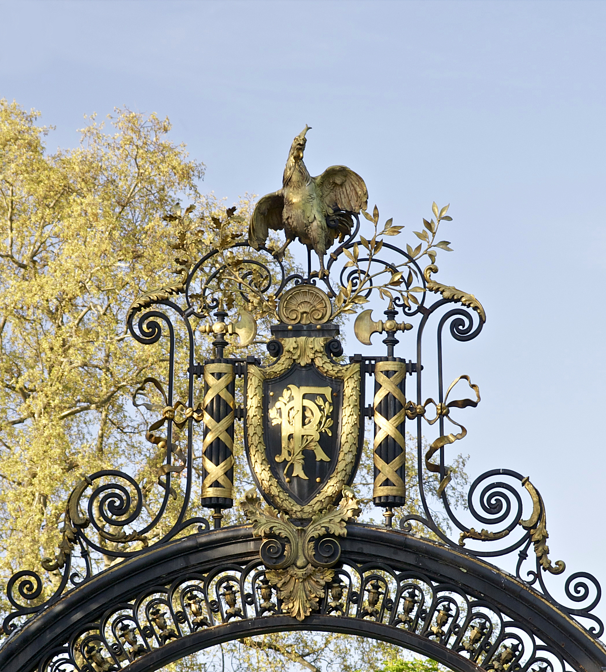 Detail of the "Grille du Coq" (Cock's iron gate), backside of the Palais de l'Elysée (Presidential palace) in Paris